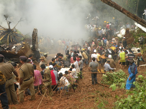 Bajpe plane crash site photo